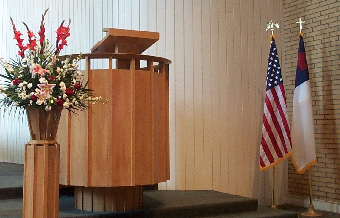 From left to right: flower arrangement, pulpit, U.S. flag, and the Christian flag on flag poles with eagle and cross finials respectively, in Covenant Presbyterian Church, Long Beach, California, United States.